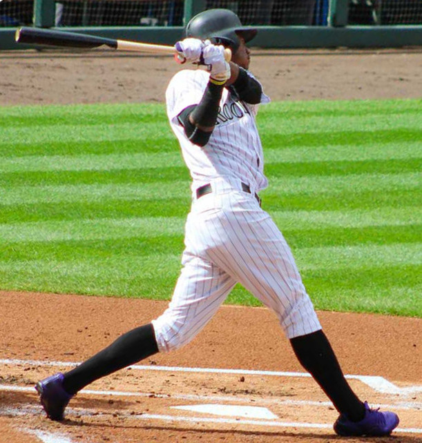 Raimel Tapia of the Colorado Rockies taking an at bat on October 1, 2017 against the Los Angeles Dodgers.